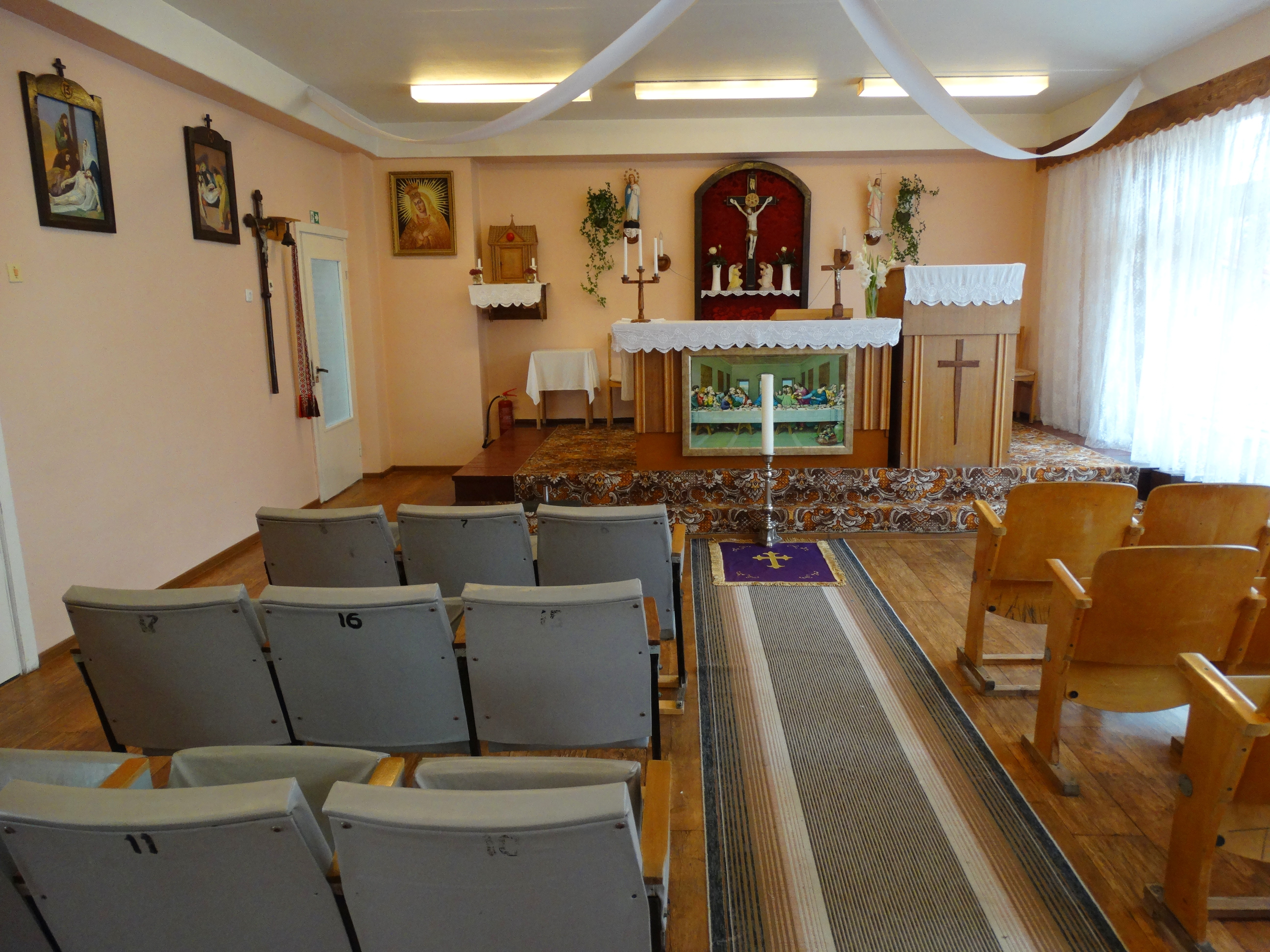 Catholic chapel, Katyčiai, Šilutė district, Lithuania